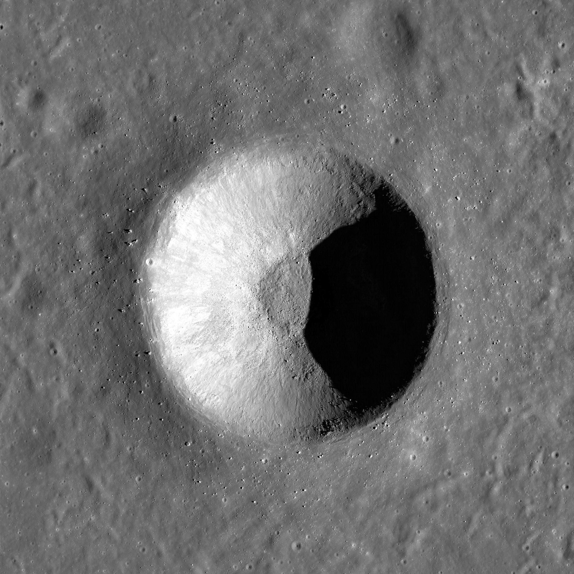 Small (2.6 km) crater Curtis on the Moon, in Mare Crisium (a map). Centered at 14.57°N, 56.80°E (according to JMARS). Photo by Lunar Reconnaissance Orbiter, made with Narrow Angle Camera 18 November 2009 from altitude 128 km. Sun elevation is 26.1°. Size of the photo is 5.0×5.0 km, north is up.